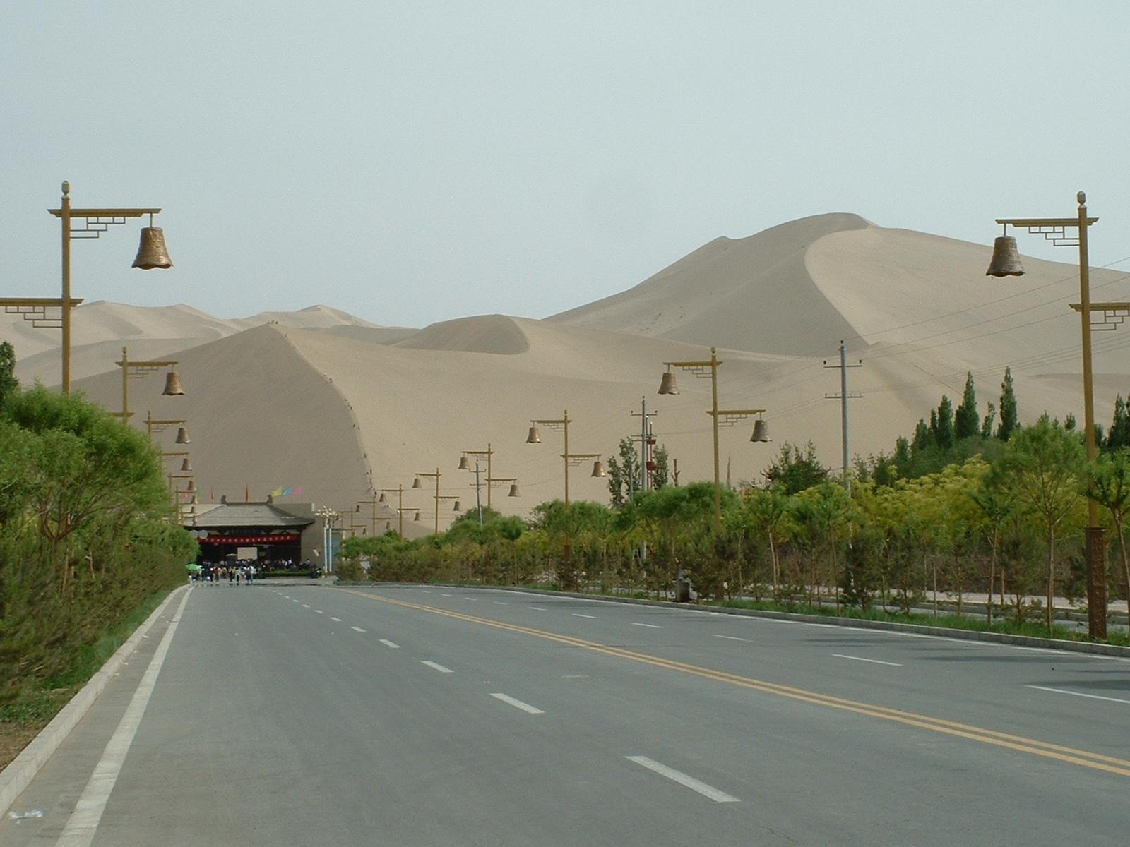 Sand dunes on the edge of Dunhuang ((c) Ian A. Inman (Beefy_SAFC) )